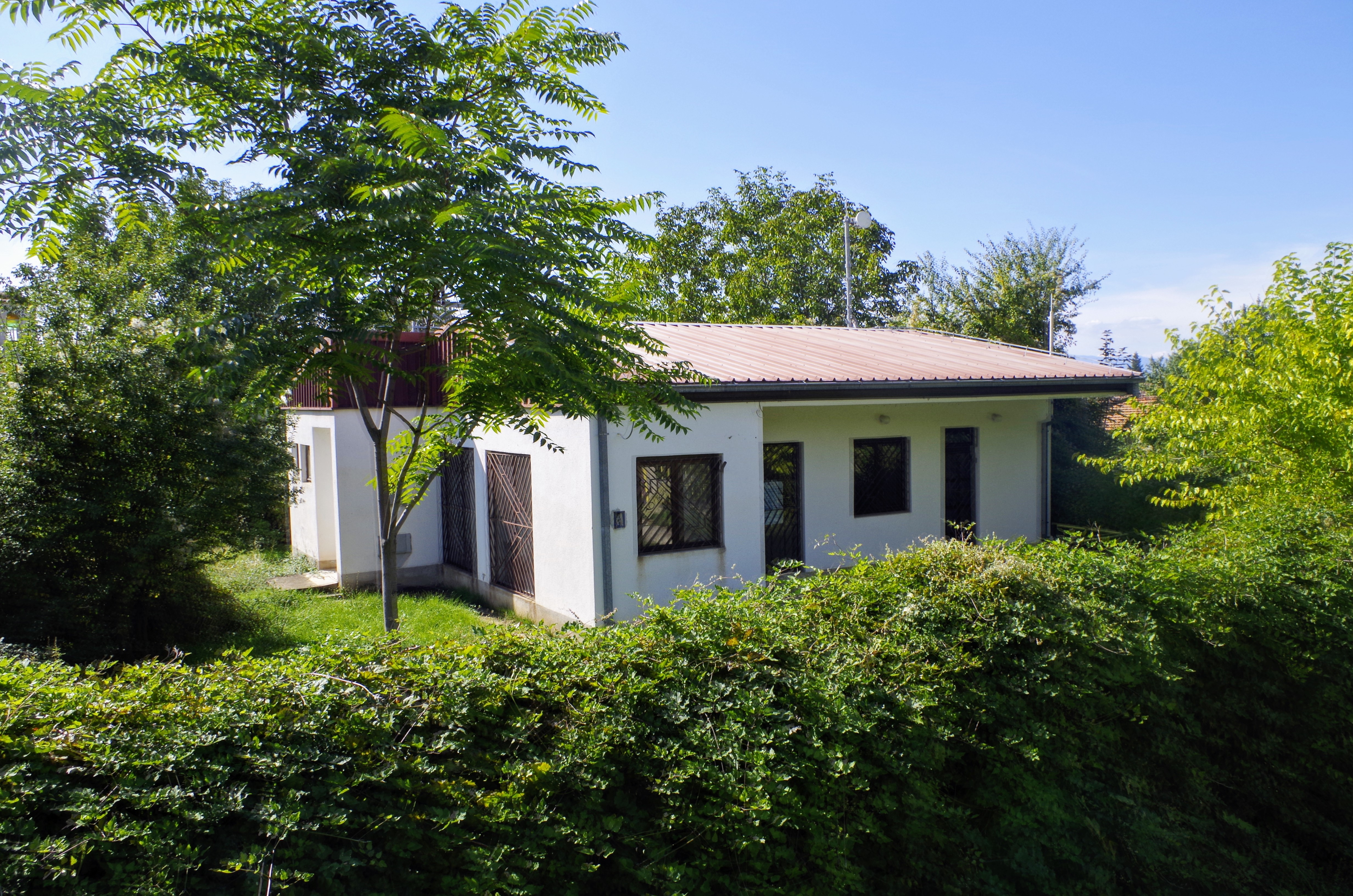 View of the post office in the village Ljubojno